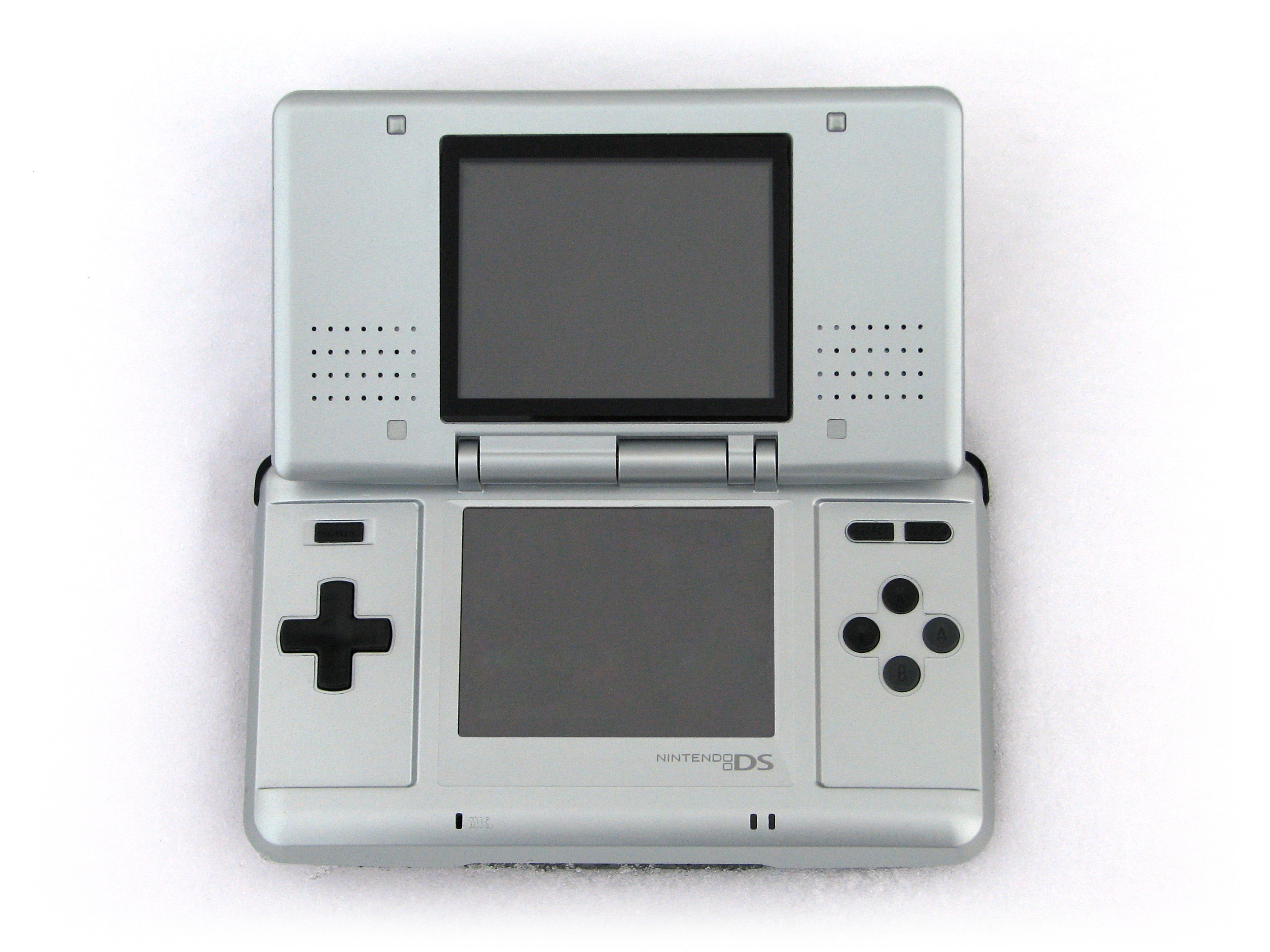 A Nintendo DS. This was taken outside on the snow, which should allay any fears that I may be sane.